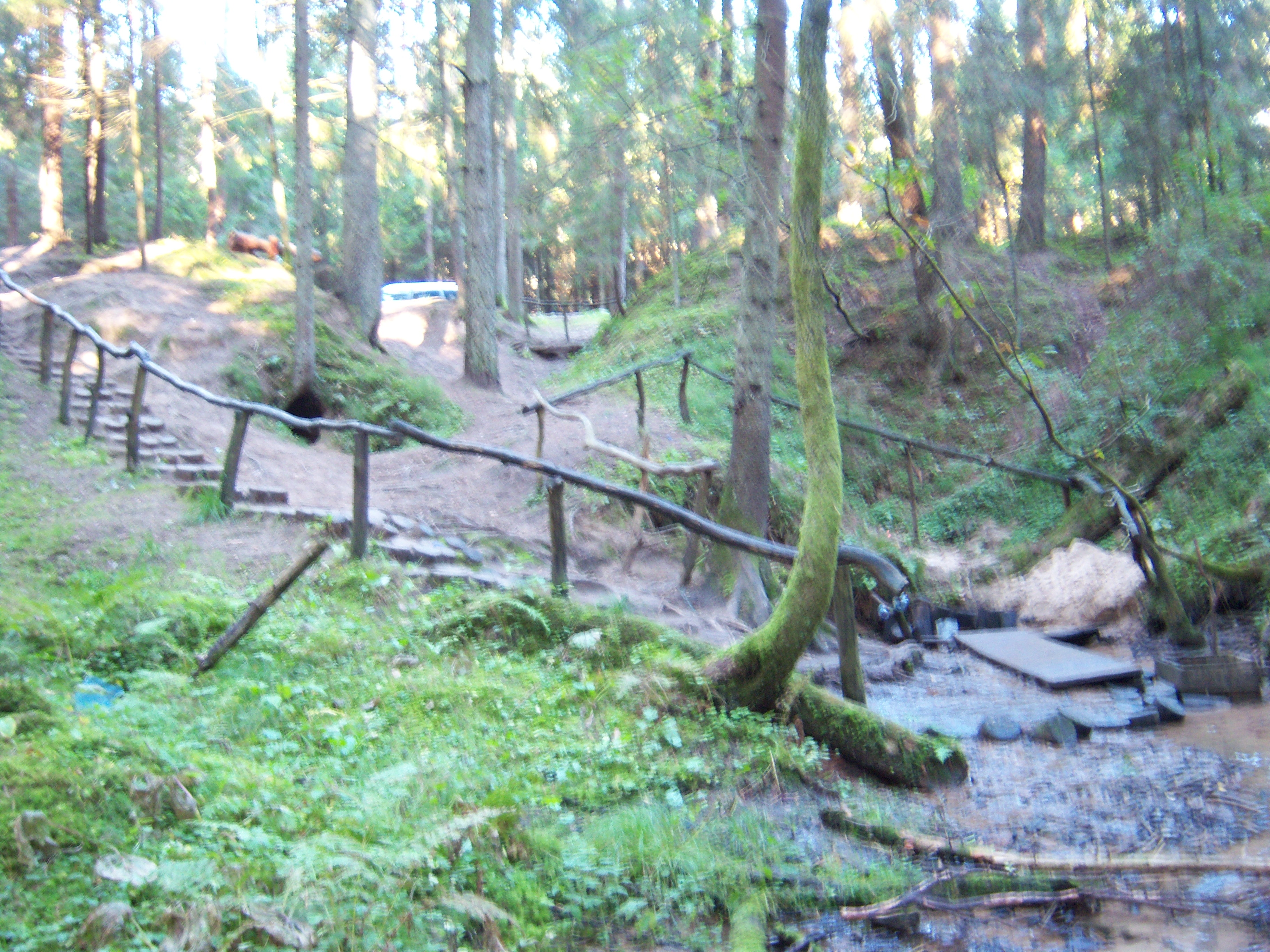 Lekėčiai spring, Šakiai District, Lithuania